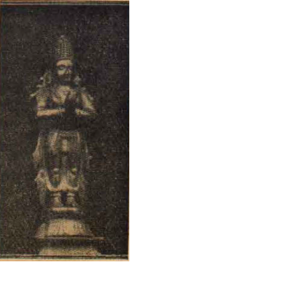 కులపక్షుడు